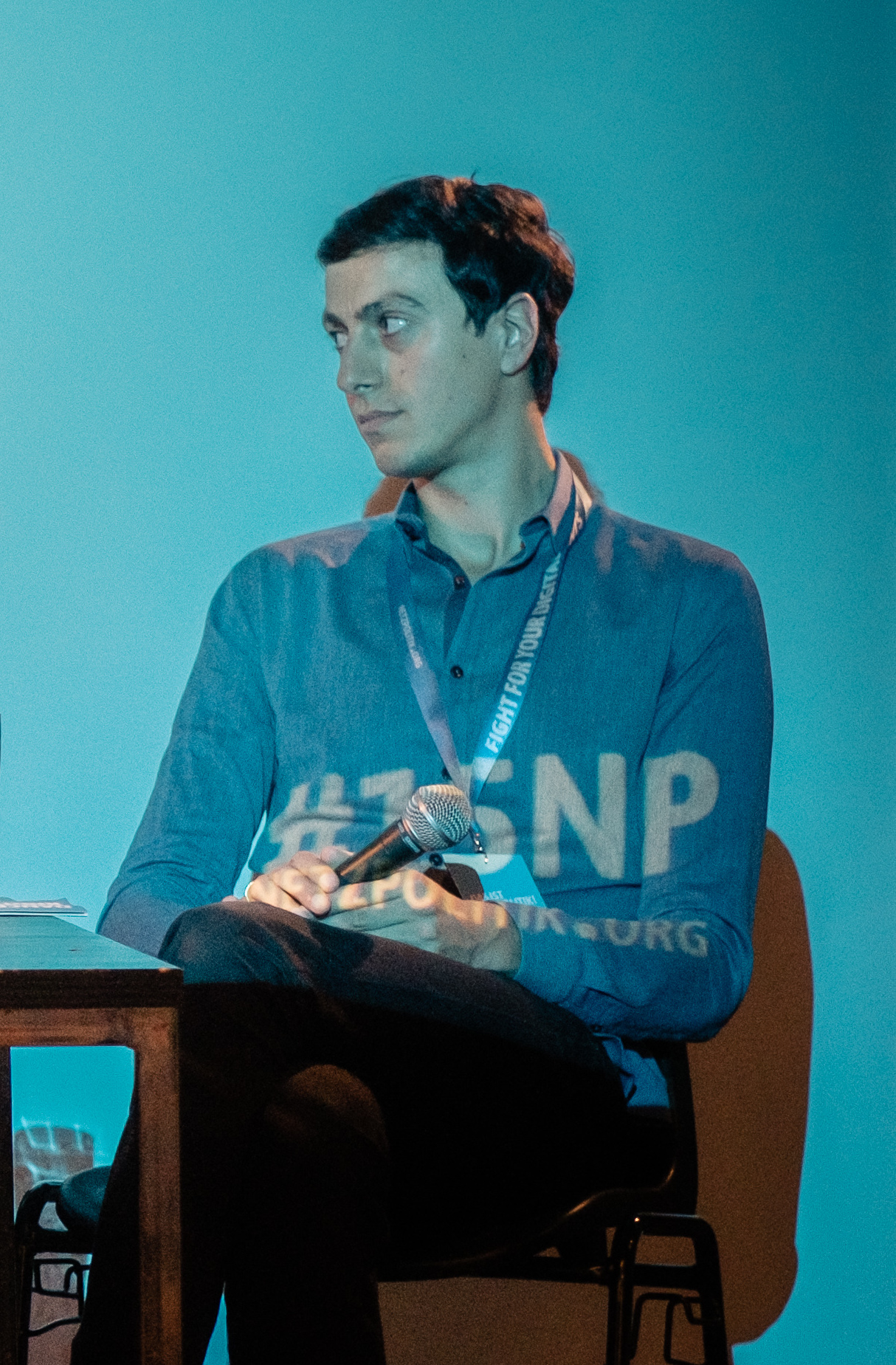 Literatur meets Netzpolitik. Katharina Meyer, Barbara Wimmer, Sina Kaufmann, Bijan Moini